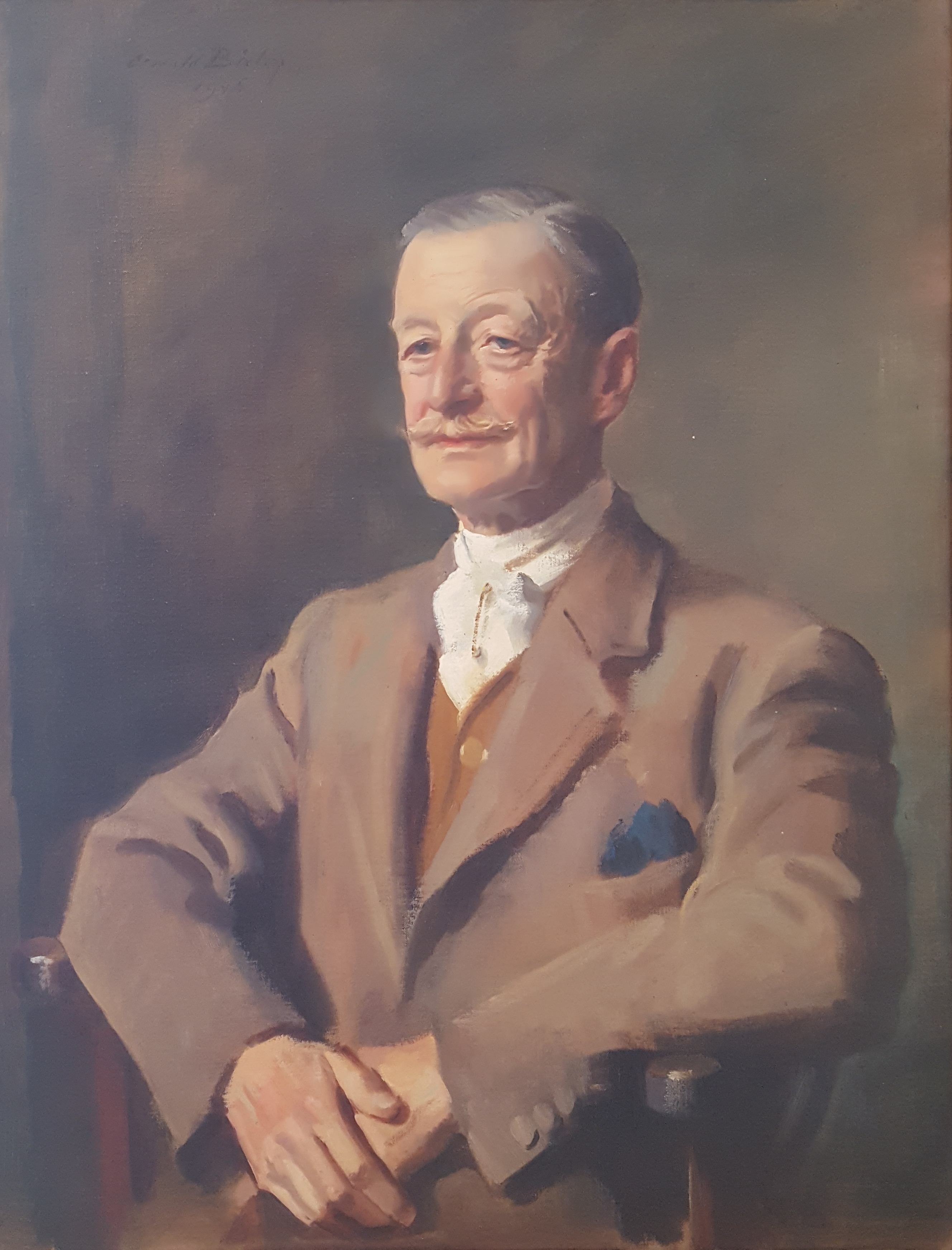 Lt Col Sir Gilbert Acland-Troyte painted by Sir Oswald Birley. This portrait was a present to Sir Gilbert from his Tiverton (Devon) constituency on the occasion of his retirement from parliament in 1945.